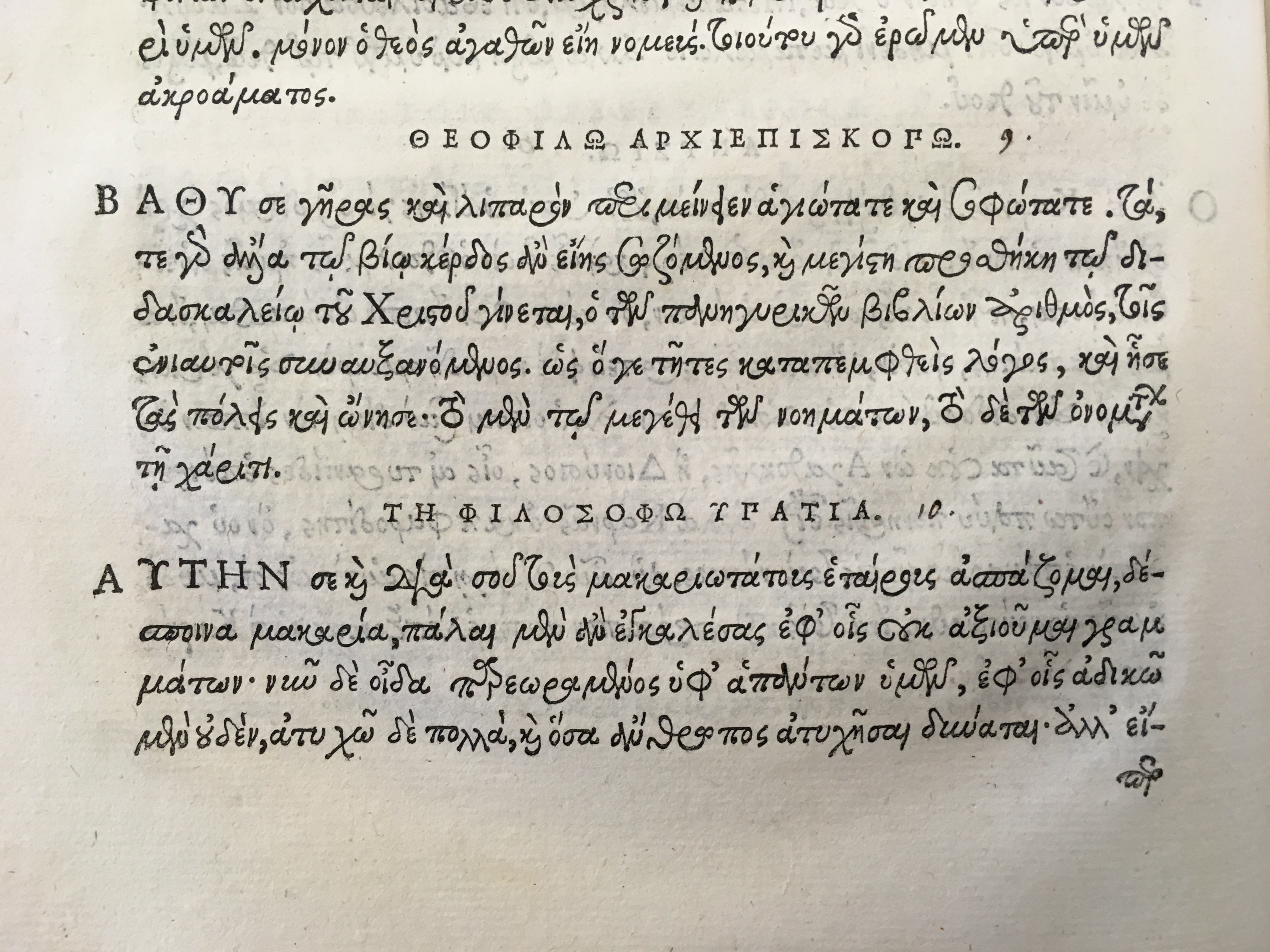 This is a photograph of the first page of the first of the two letters to Hypatia included in the first print edition of Synesius' works (edited and printed by Adrian Turnèbe in 1553). This photograph was taken at the Institute Archives of the Massachusetts Institute of Technology.